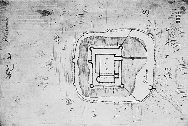 Ink drawing of monastery at Zalavár - Vársziget by military engineer Giulio Turco.